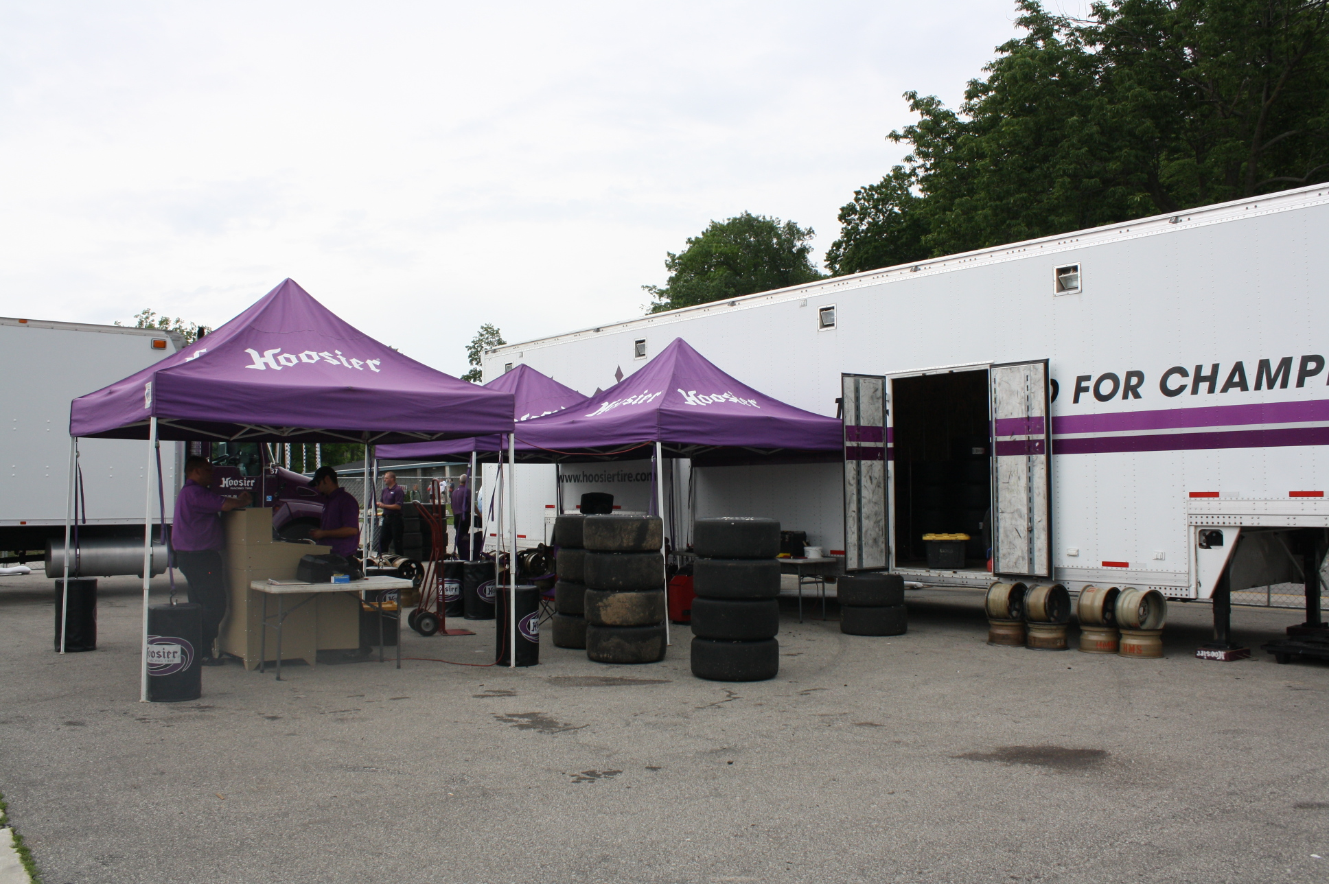 The tire area for Darrell Basham at the 2013 Scott 160 race at Road America.